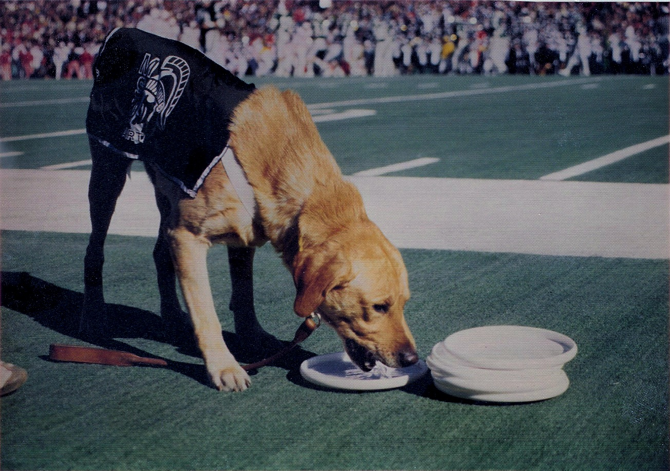 Zeke the Wonder Dog drinks from one of his Frisbees. 1978, Spartan Stadium, East Lansing, Michigan, USA